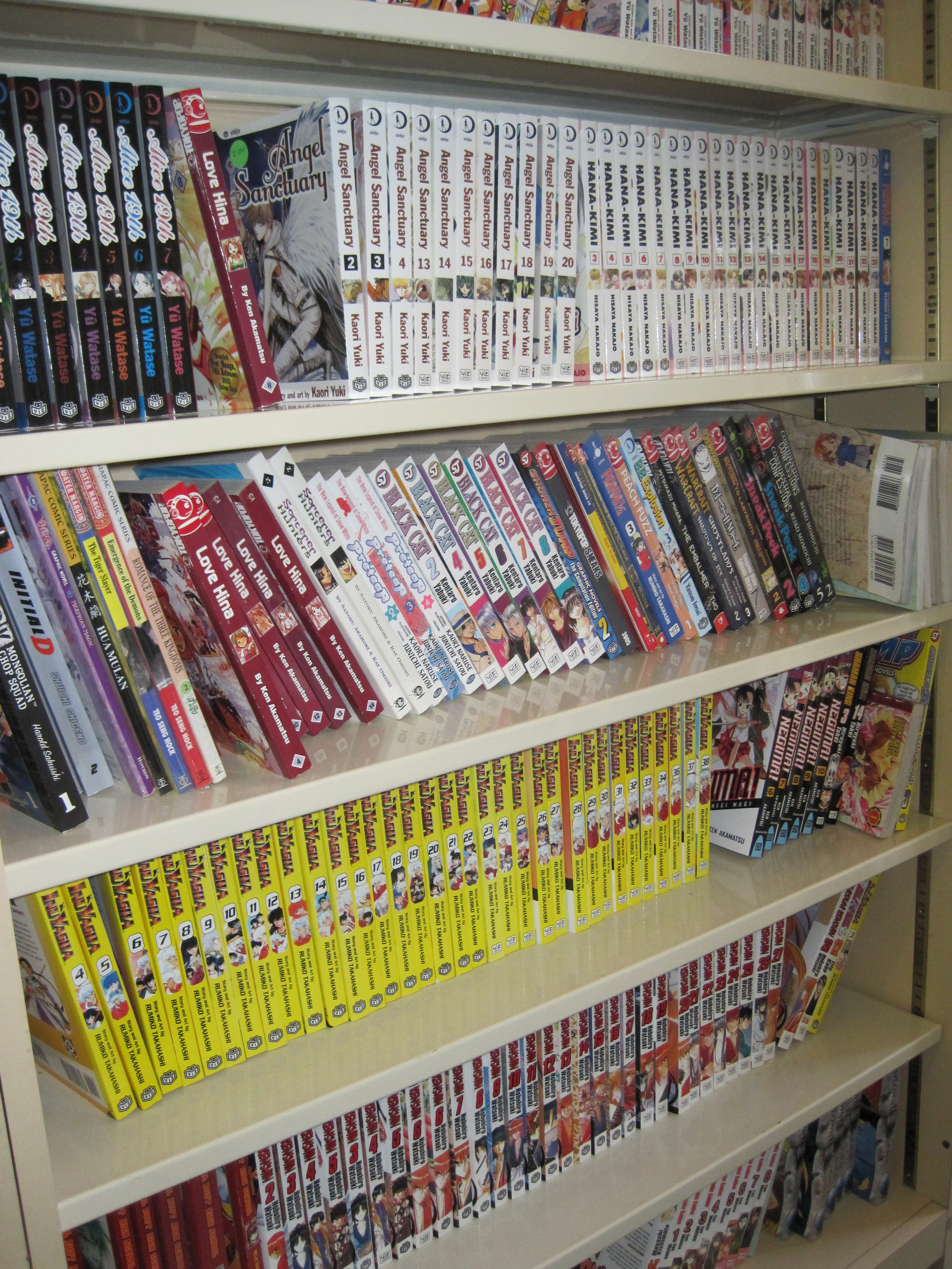 The manga section at B Street Books, a used bookstore in San Mateo, California.